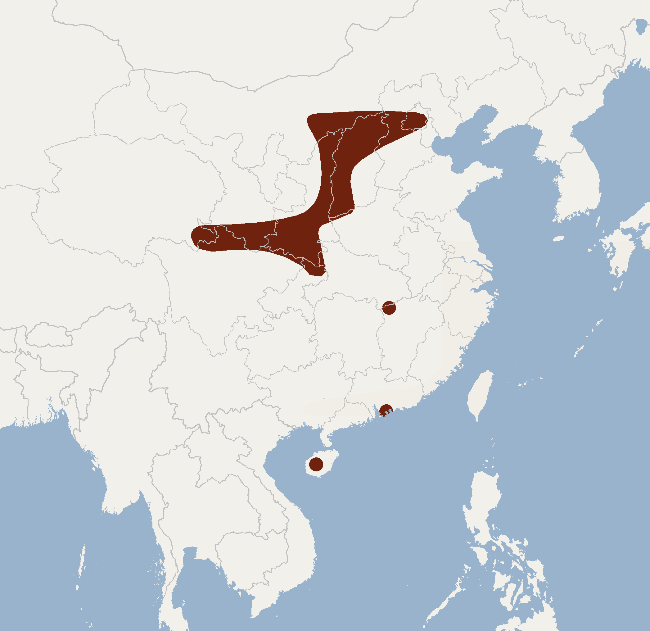 According to Smith & Xie, 2008